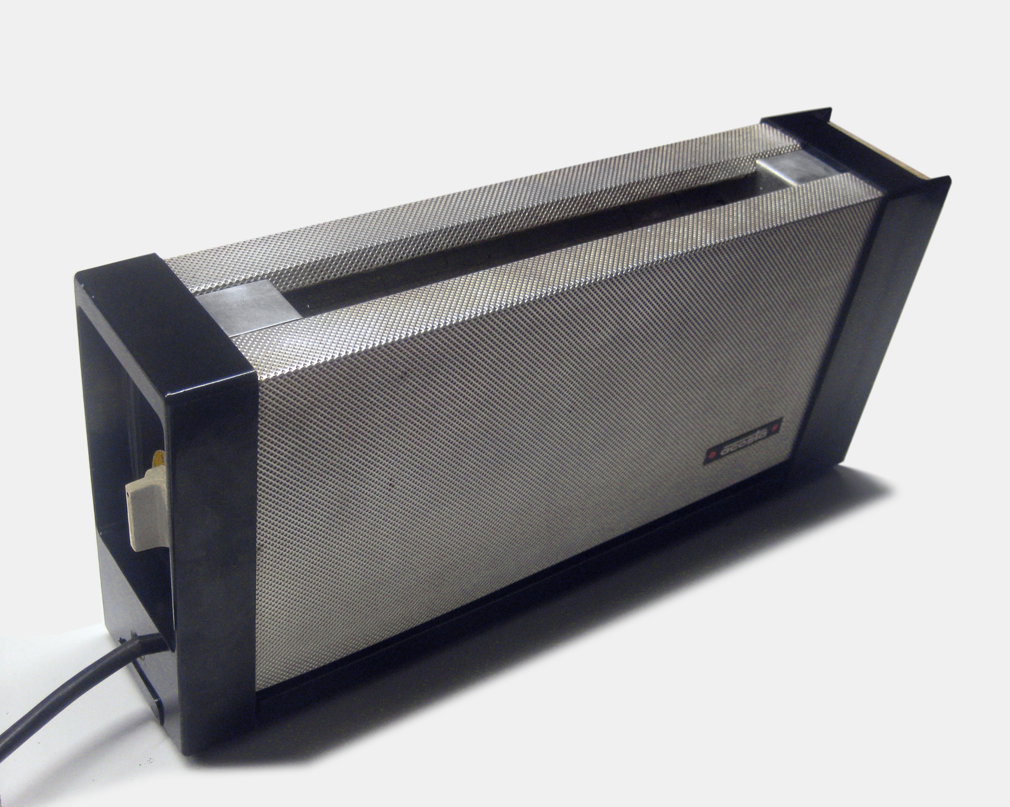 acosta automatic-motortoaster type:MTA4. Toaster with electric elevating system. Made in Germany. Design: Winfried Klemmt and Klaus Stützner